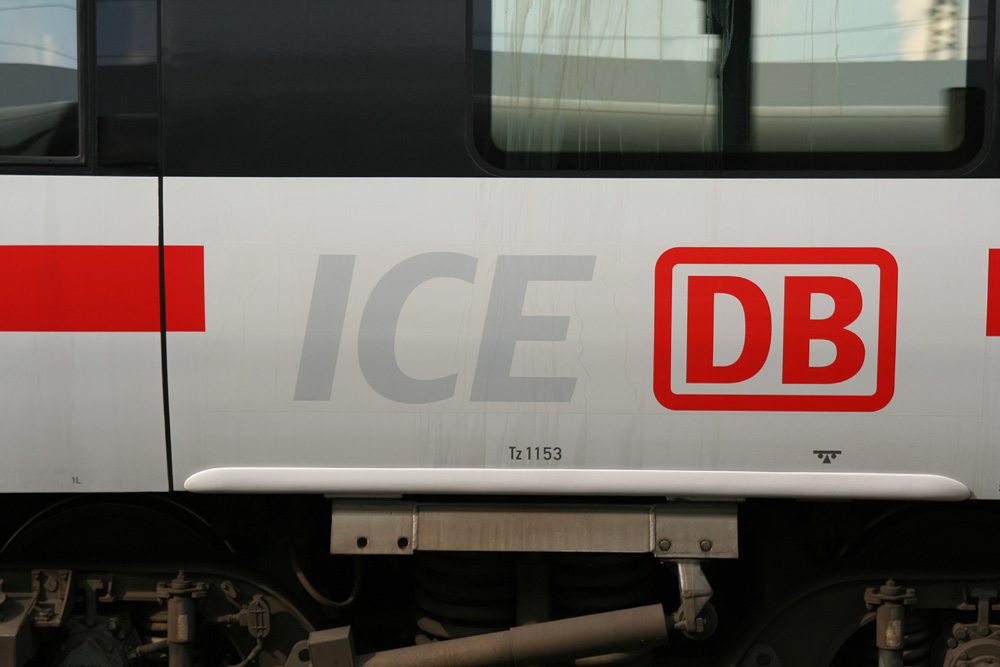 The new ICE logo incorporated the Deutsche Bahn logo.